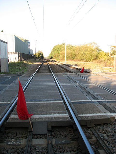 Red flags on the railway line. The author writes: View north over the level crossing on Station Road, Tivetshall St Margaret. Tivetshall was a railway station on the Great Eastern Main Line as well as the western terminus of the Waveney Valley Line from Beccles. It was first opened in 1849. The Waveney Valley Line was opened in 1885. Tivetshall station was closed in 1966. Nothing remains of the Waveney Valley Line. The since electrified track of the former Great Eastern Main Line is presently operated by National Express East Anglia, running trains from Norwich to London Liverpool Street. A section of the track is currently being rebuilt and the line is closed over the weekend, with the only trains running being freight trains that supply building materials such as railway sleepers, ballast and sand. Awaiting a freight train hauling sand to the building site, red flags have been placed on the tracks where they cross Station Road (B1134). Once the crossing gates are closed to road traffic the red flag will be removed and an engineer will signal that the crossing is clear by holding up a green flag. This image was taken by kind permission (and under supervision) of authorised staff.